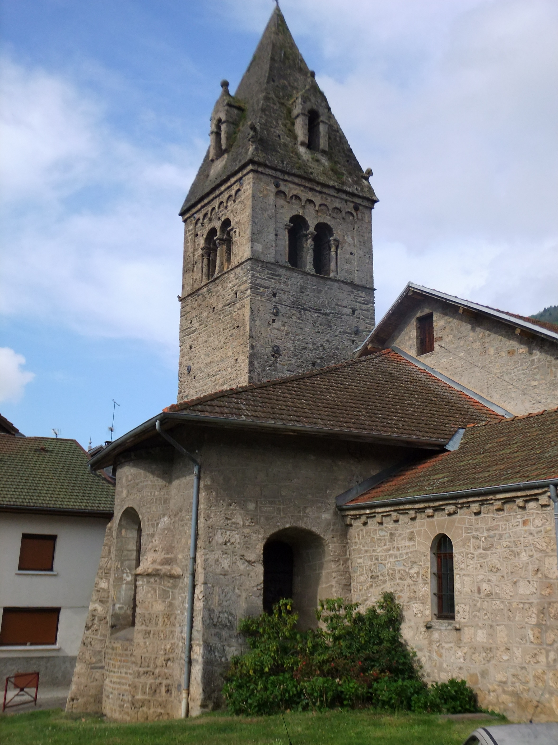 Chevet and bell tower (XIth century) of Saint Pierre, an ancien priory church, now a parish church.